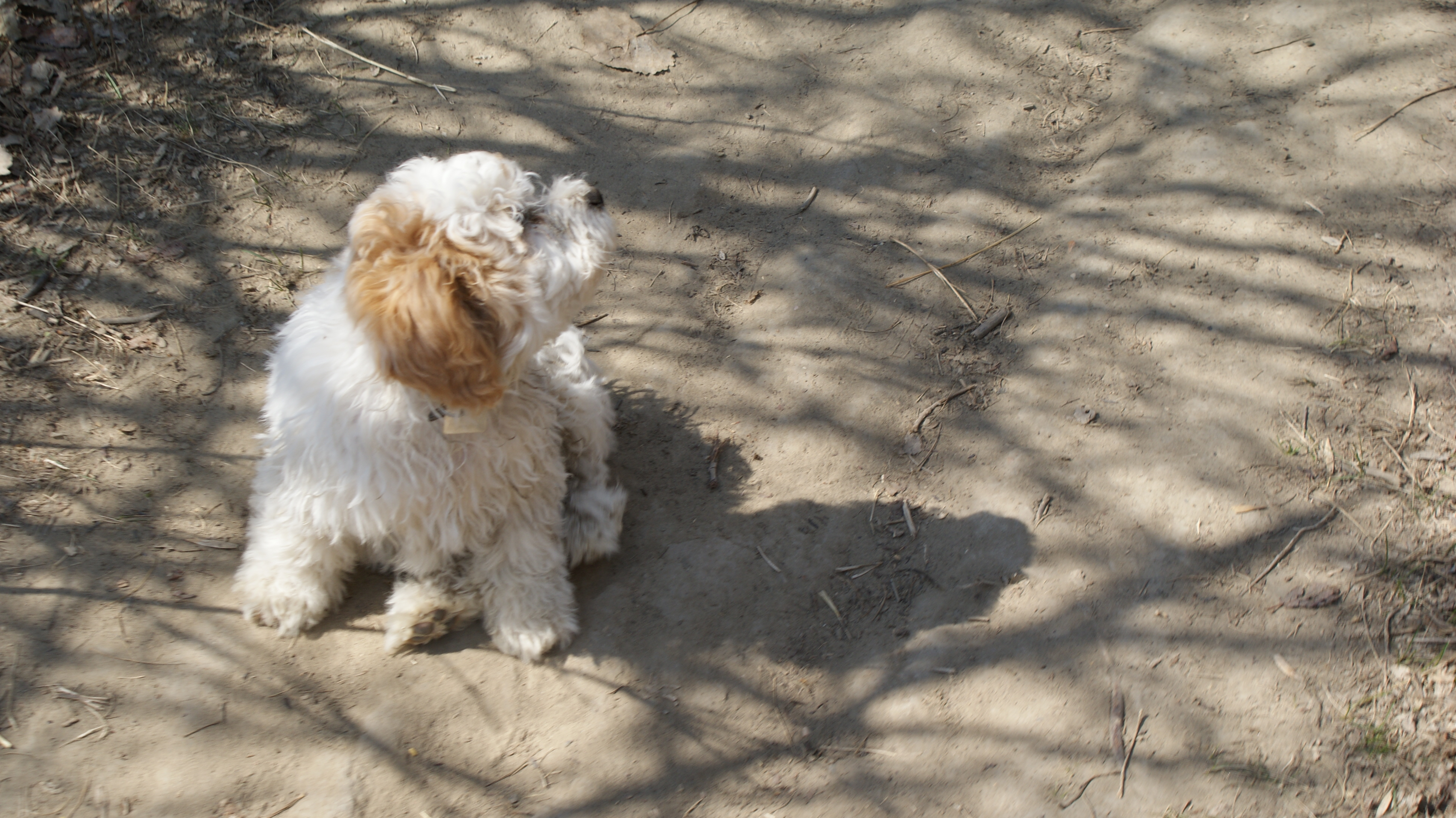 Bichon Frise - Poodle cross